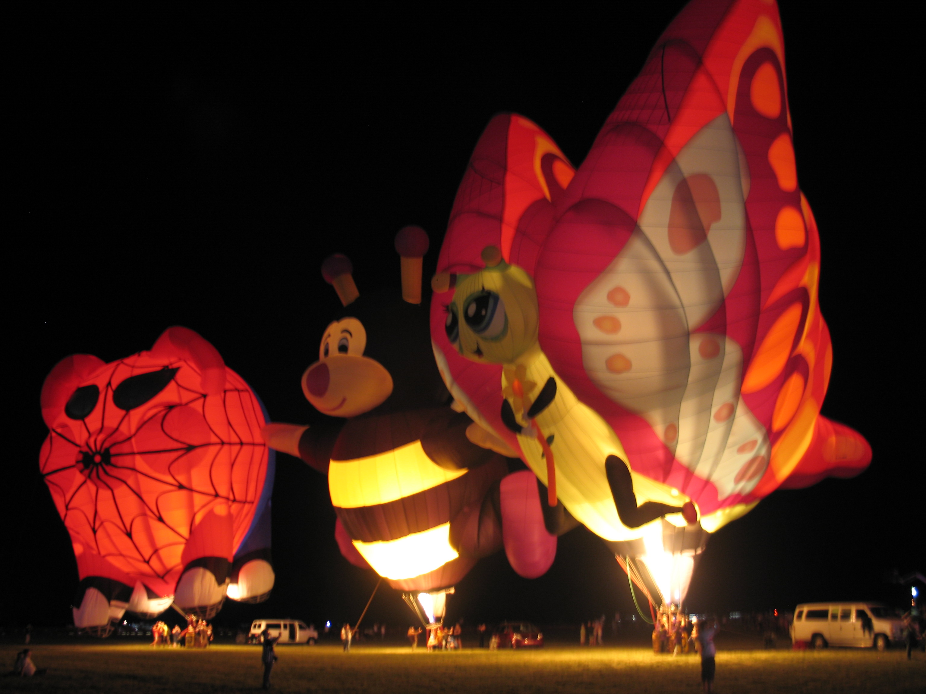 Special shapes at the International Balloon Festival of Saint-Jean-sur-Richelieu Night Glow event. From left to right Spyder Pig, Baby Bee et Betty Jean the Butterfly, three invited balloonists from the United States.